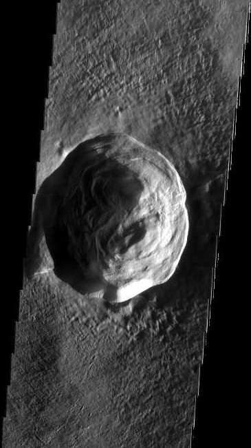 Karzok crater, on the slope of Olympus Mons, Mars, imaged by THEMIS VIS. Emission Angle: 0.1 Incidence Angle: 79.8 Latitude: 18.5 Longitude: 228.3 Phase Angle: 79.8 Pixel Resolution: 17.6